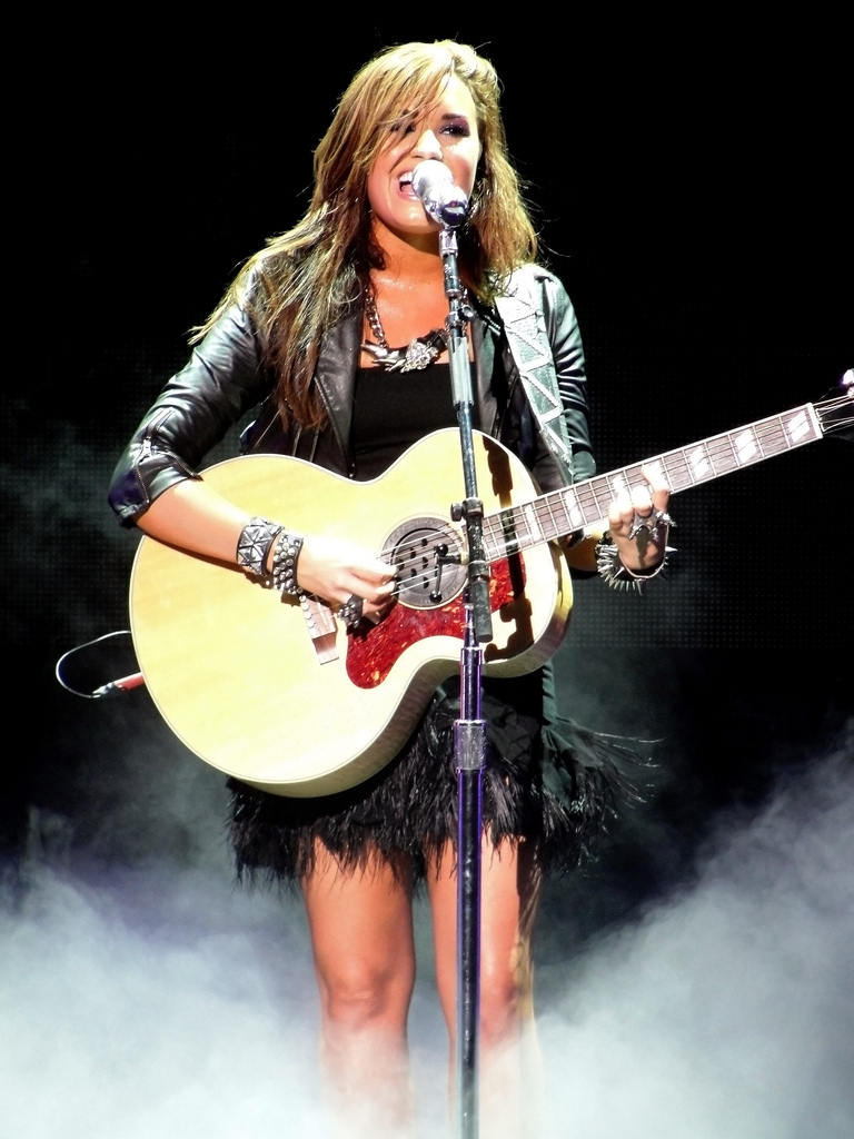 Jonas Brothers Live In Concert and The Cast of Camp Rock 2, September 2nd, 2010.